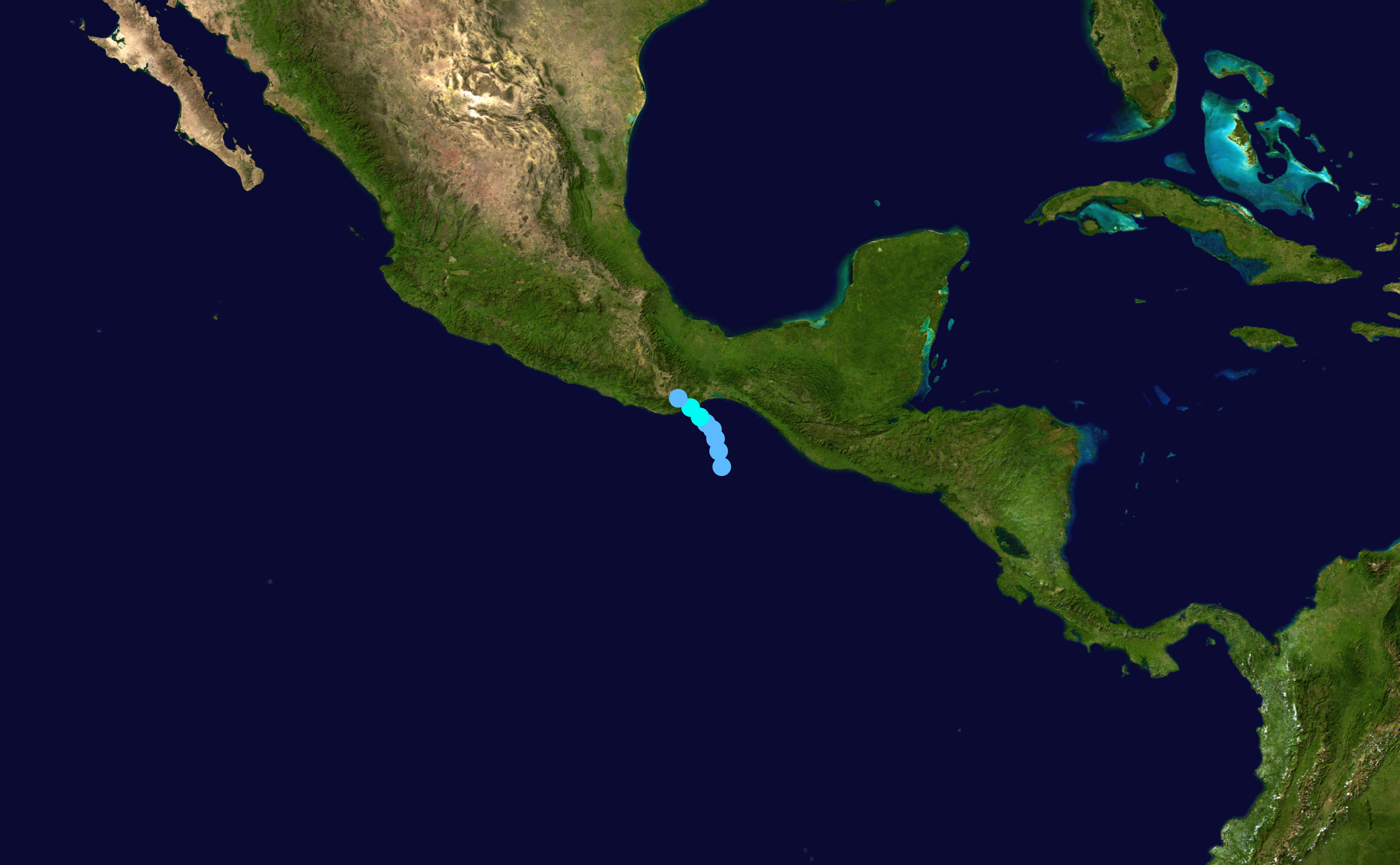 Track map of Tropical Storm Calvin of the 2017 Pacific hurricane season. The points show the location of the storm at 6-hour intervals. The colour represents the storm's maximum sustained wind speeds as classified in the Saffir–Simpson scale (see below), and the shape of the data points represent the nature of the storm, according to the legend below. Saffir–Simpson scale Tropical depression≤38 mph≤62 km/h Category 3111–129 mph178–208 km/h Tropical storm39–73 mph63–118 km/h Category 4130–156 mph209–251 km/h Category 174–95 mph119–153 km/h Category 5≥157 mph≥252 km/h Category 296–110 mph154–177 km/h Unknown Storm type Tropical cyclone Subtropical cyclone Extratropical cyclone / Remnant low / Tropical disturbance / Monsoon depression